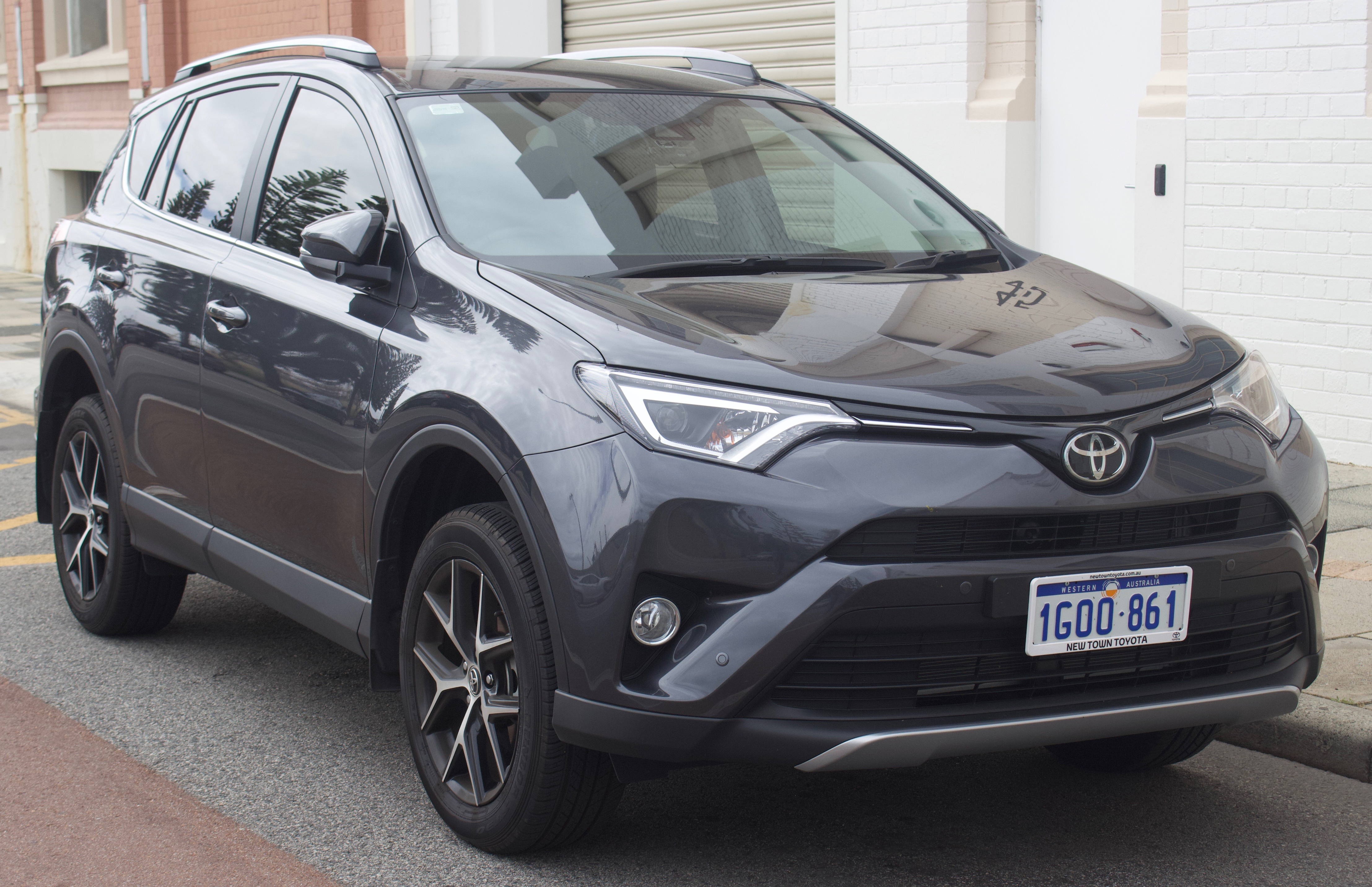 2018 Toyota RAV4 (ZSA42R) GXL 2WD wagon. Photographed in Fremantle, Western Australia, Australia.